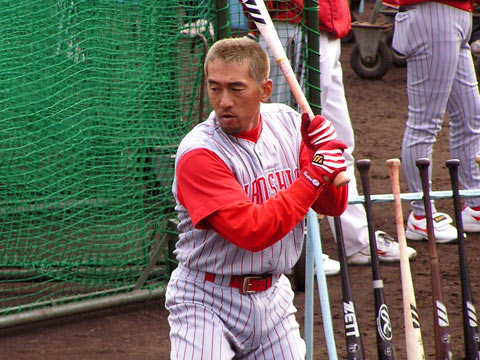 Kenjiro Nomura, infielder of the Hiroshima Toyo Carp, at Nichinan Tempuku Baseball Stadium.